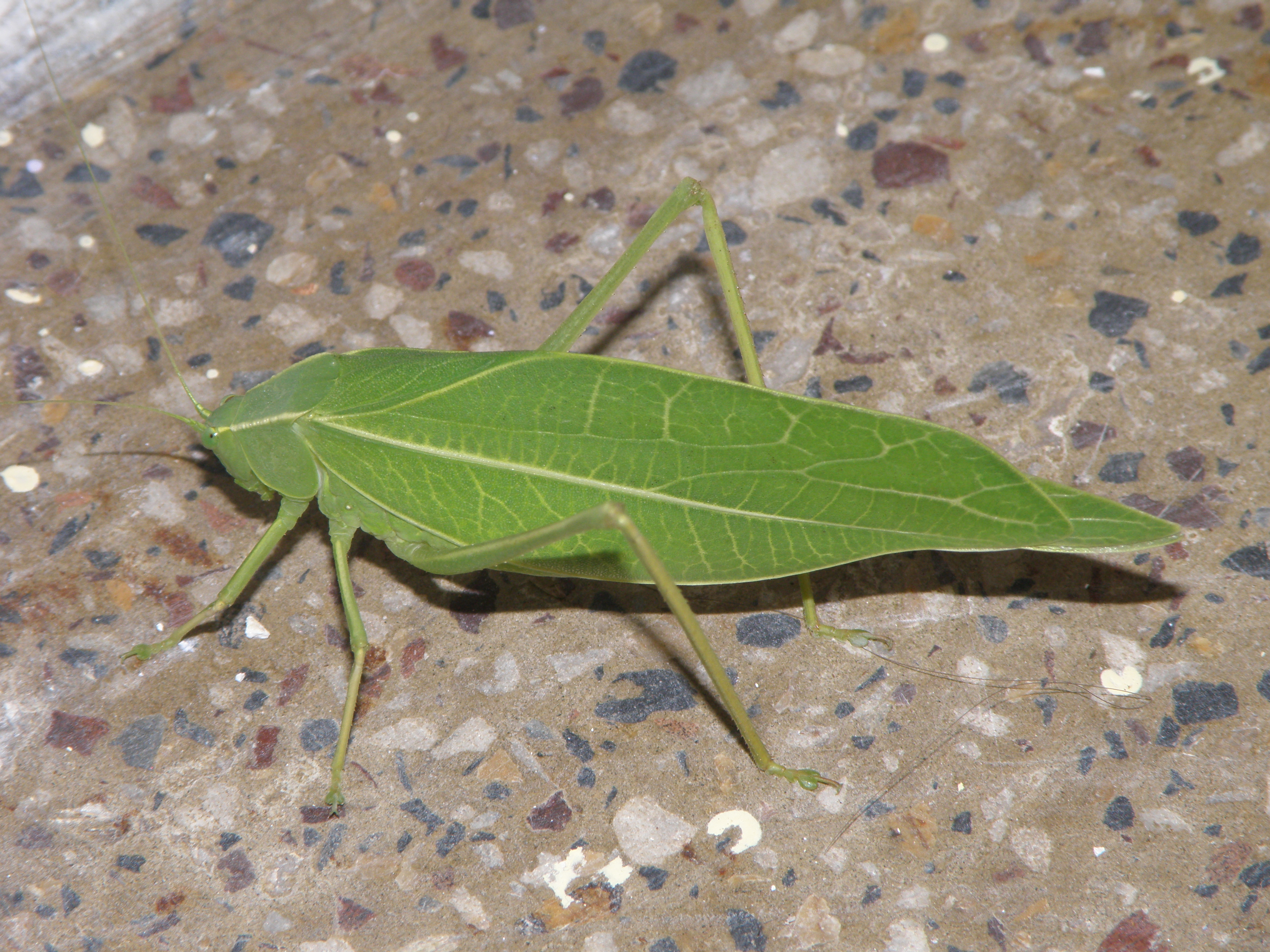 A Katydid